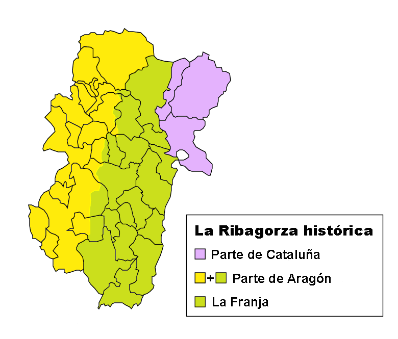 Historical Ribagorza region map. Labels in Spanish.